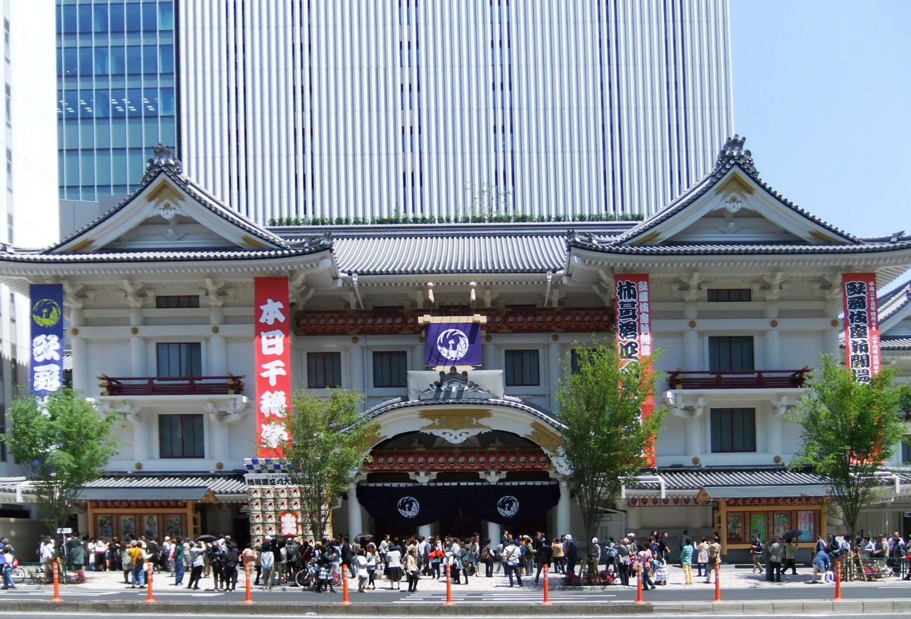 Kabuki-za theatre in Ginza, Tokyo